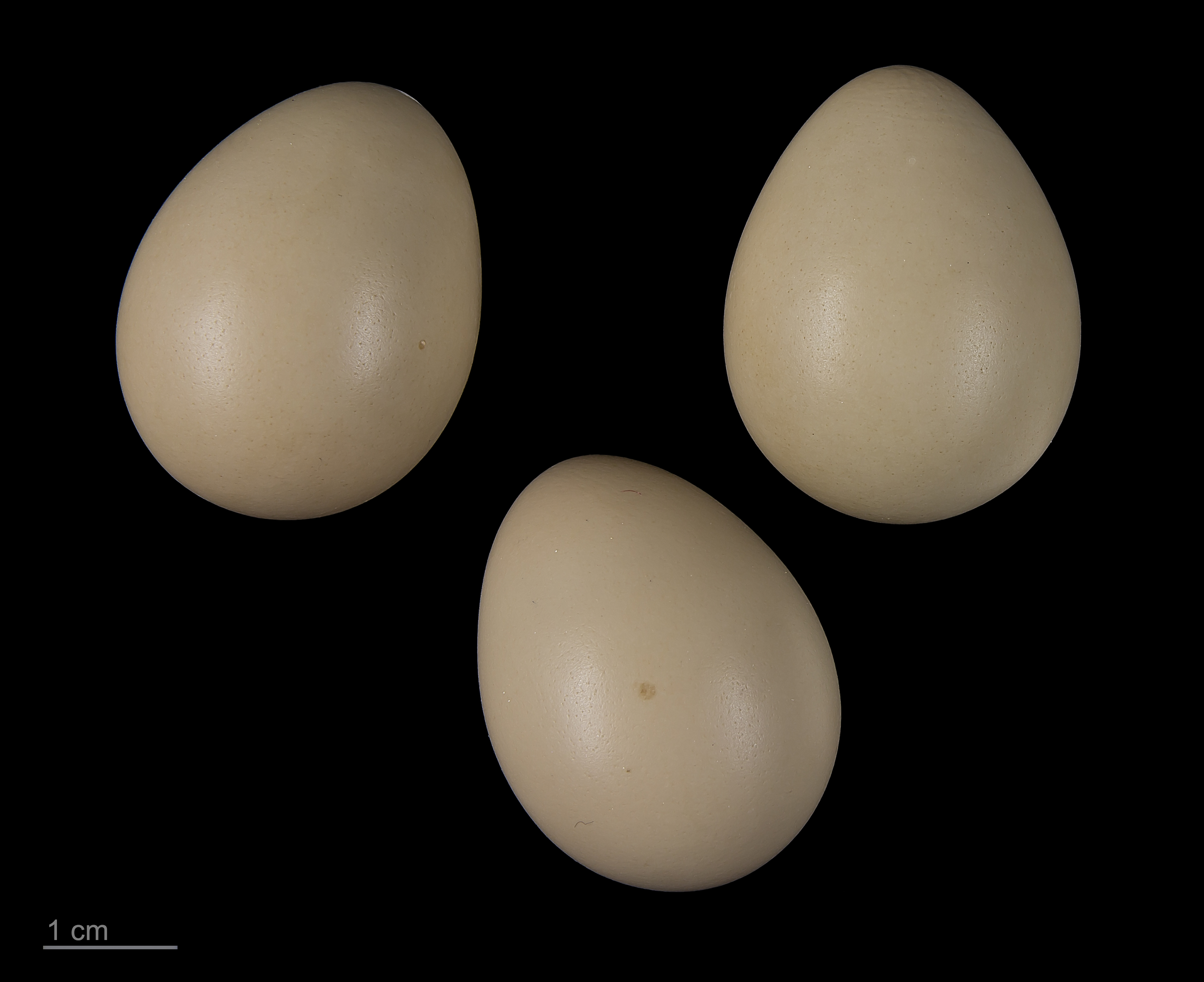 Egg of Perdix perdix Collection of Jacques Perrin de Brichambaut.